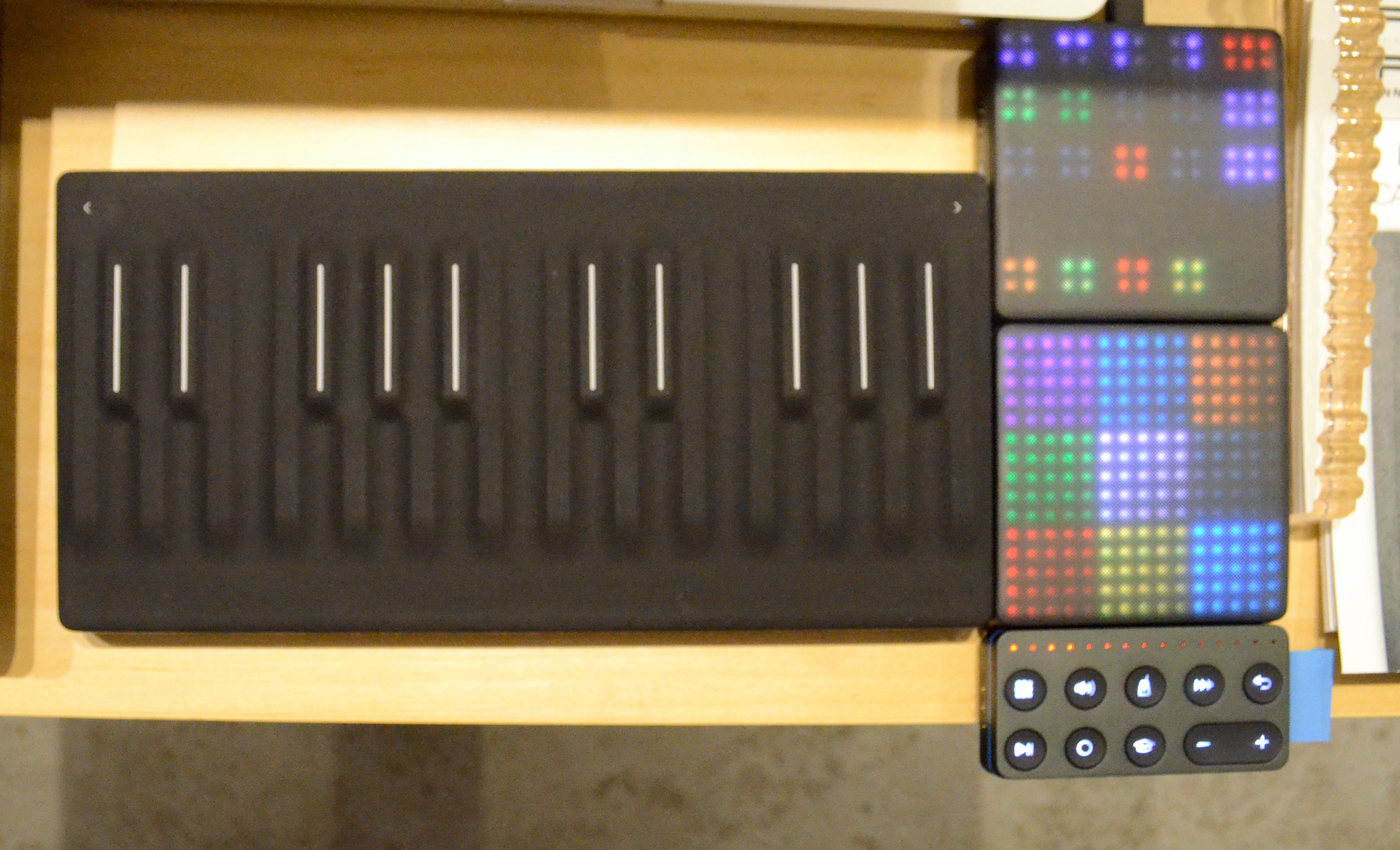 ROLI products: Seaboard Block+Loop Block+2 Lightpad Block